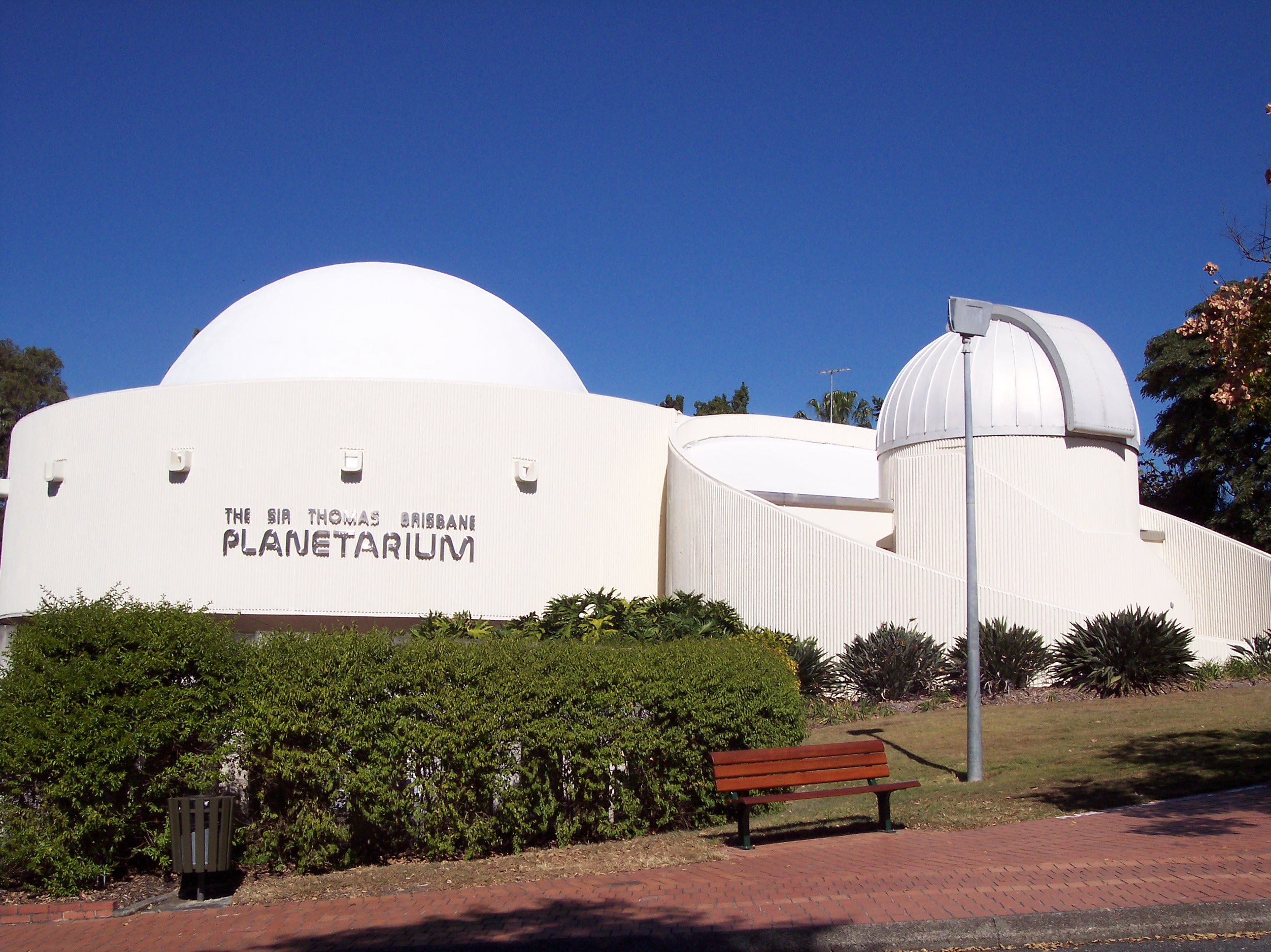 Photo of the Sir Thomas Brisbane Planetarium.